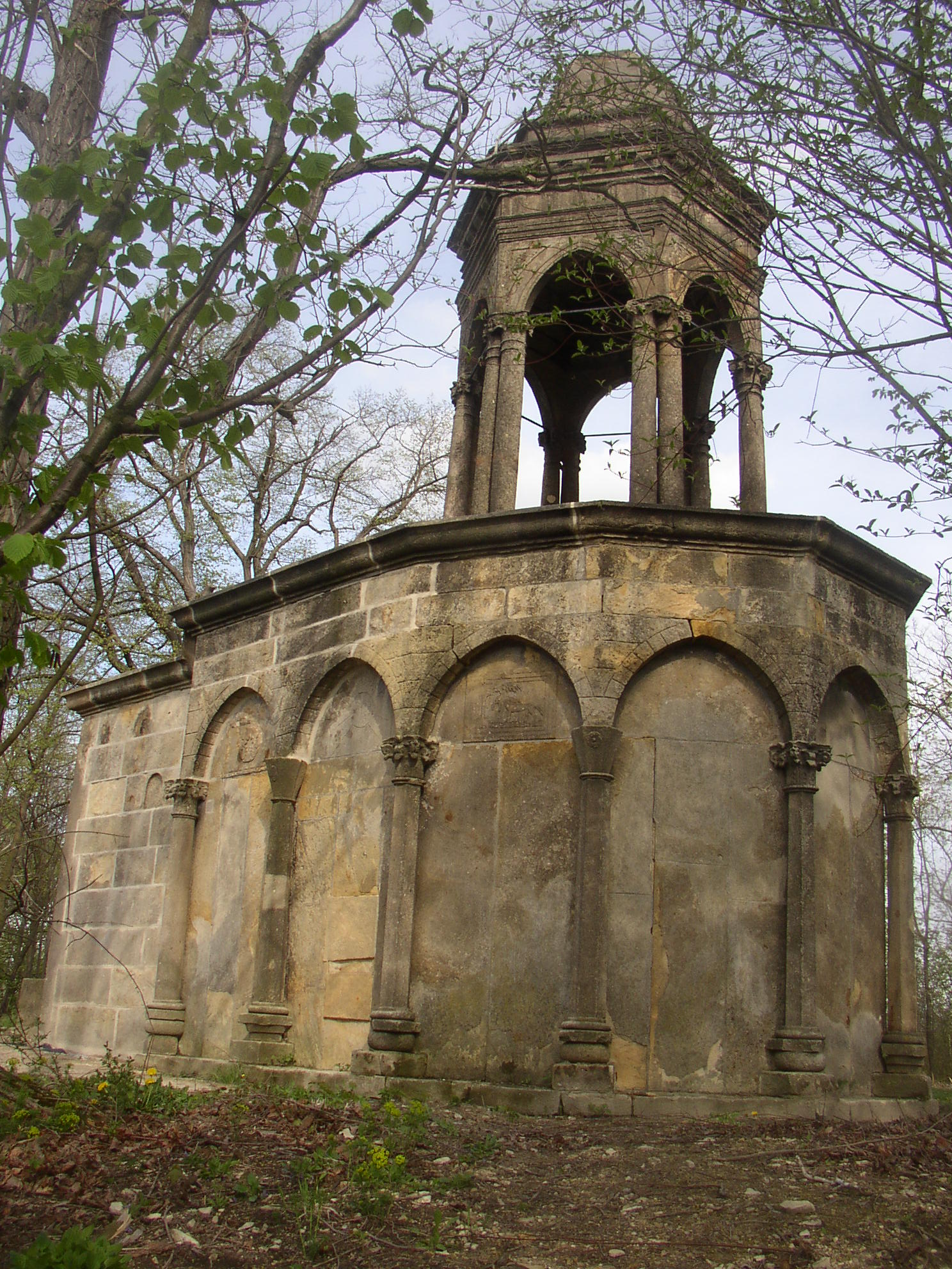 Holy Sepulchre chapel in town of Slaný, Kladno District, Czech Republic. This oldest replica of the Holy Sepulchre in Bohemia was built by Count Bernard Ignác of Martinice in 1665.